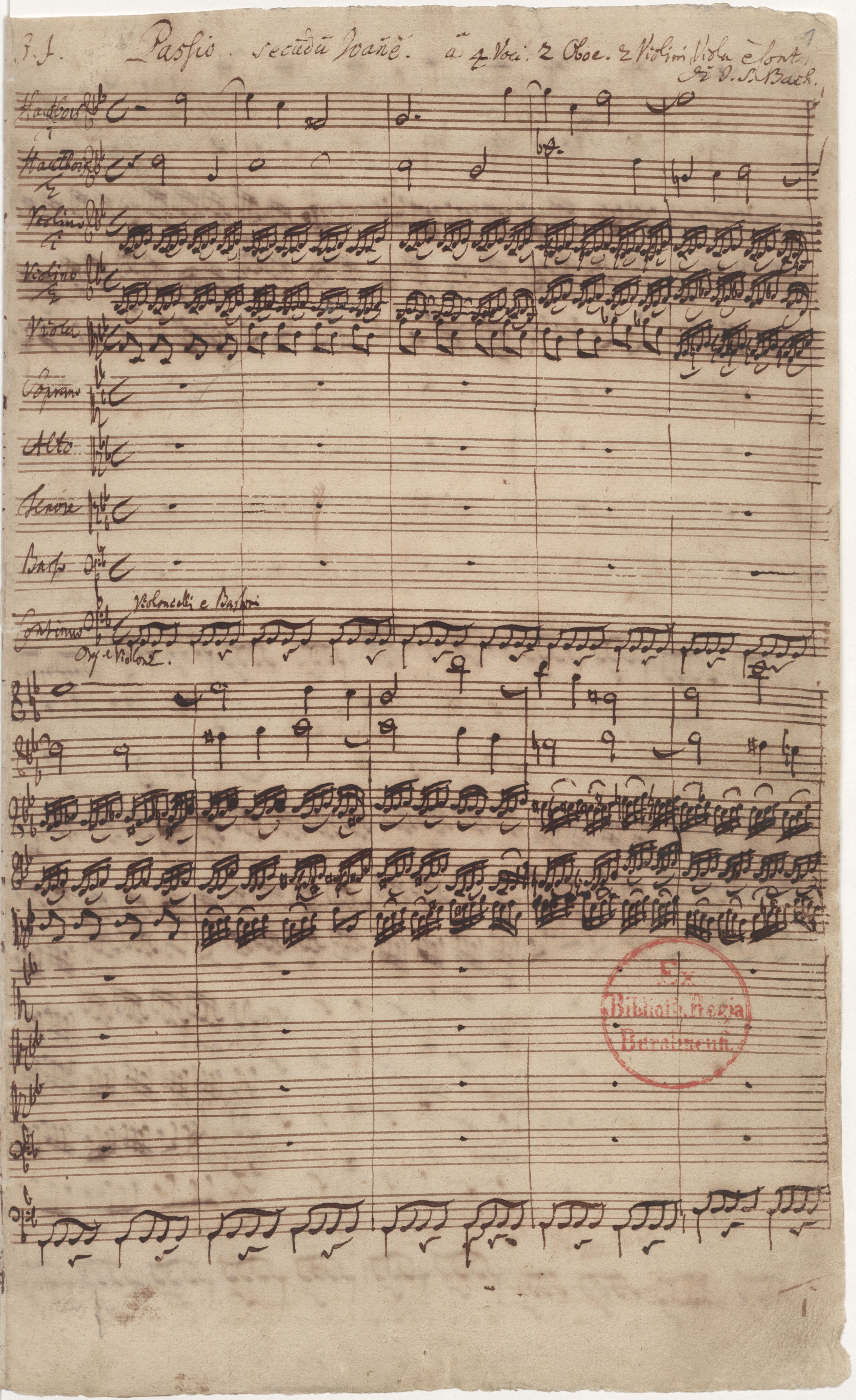 Autograph of the first page of the Johannespassion by Johann Sebastian Bach.